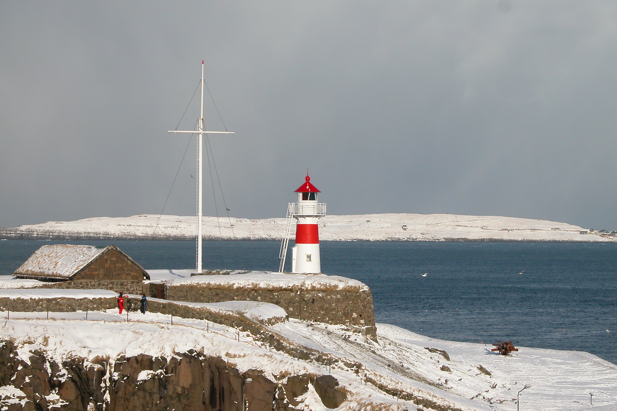 Skansin, Tórshavn, Faroe Islands